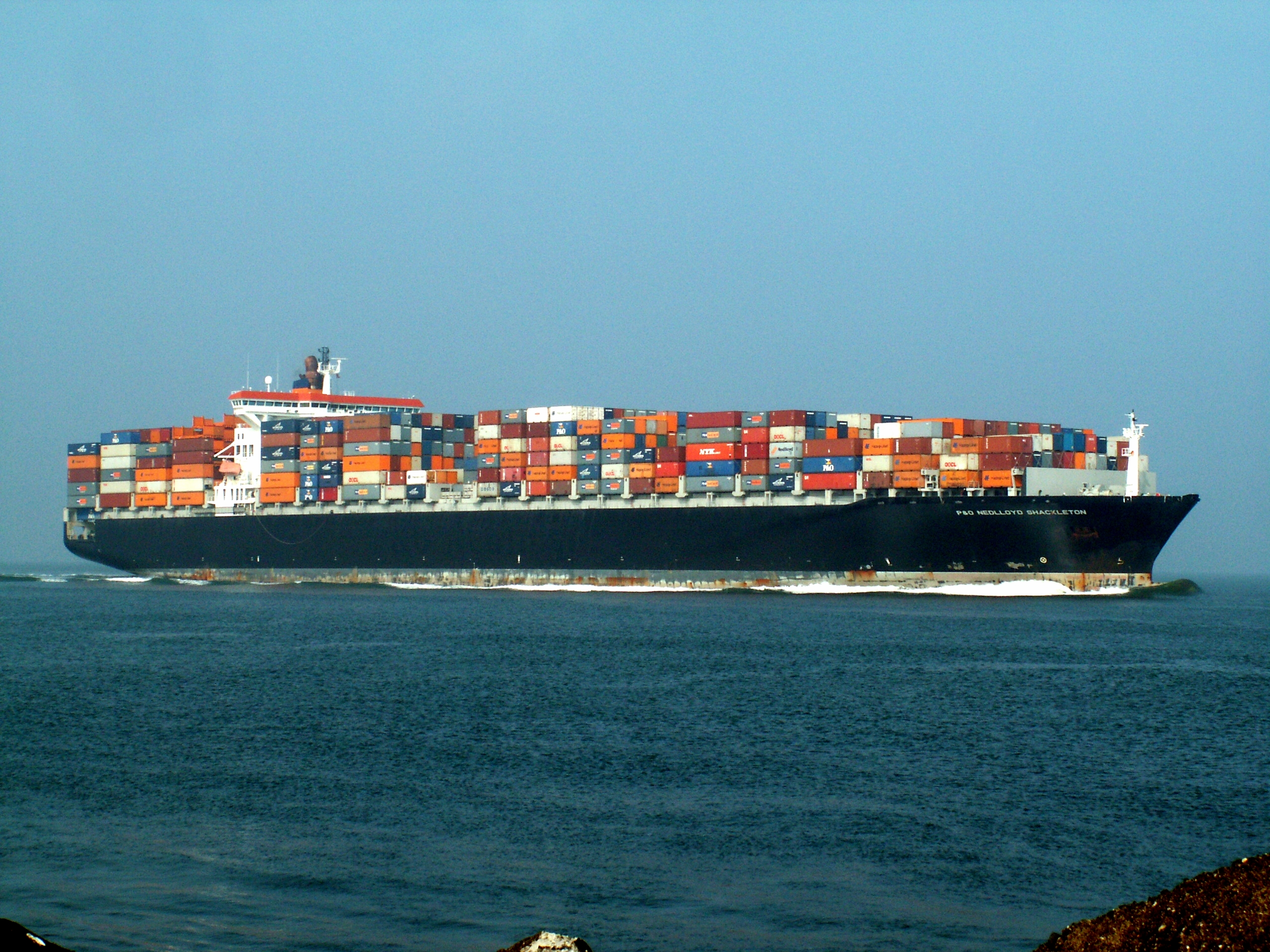 P&O Nedlloyd Shackleton 08oct05 approaching Port of Rotterdam, Holland 08-Oct-2005.